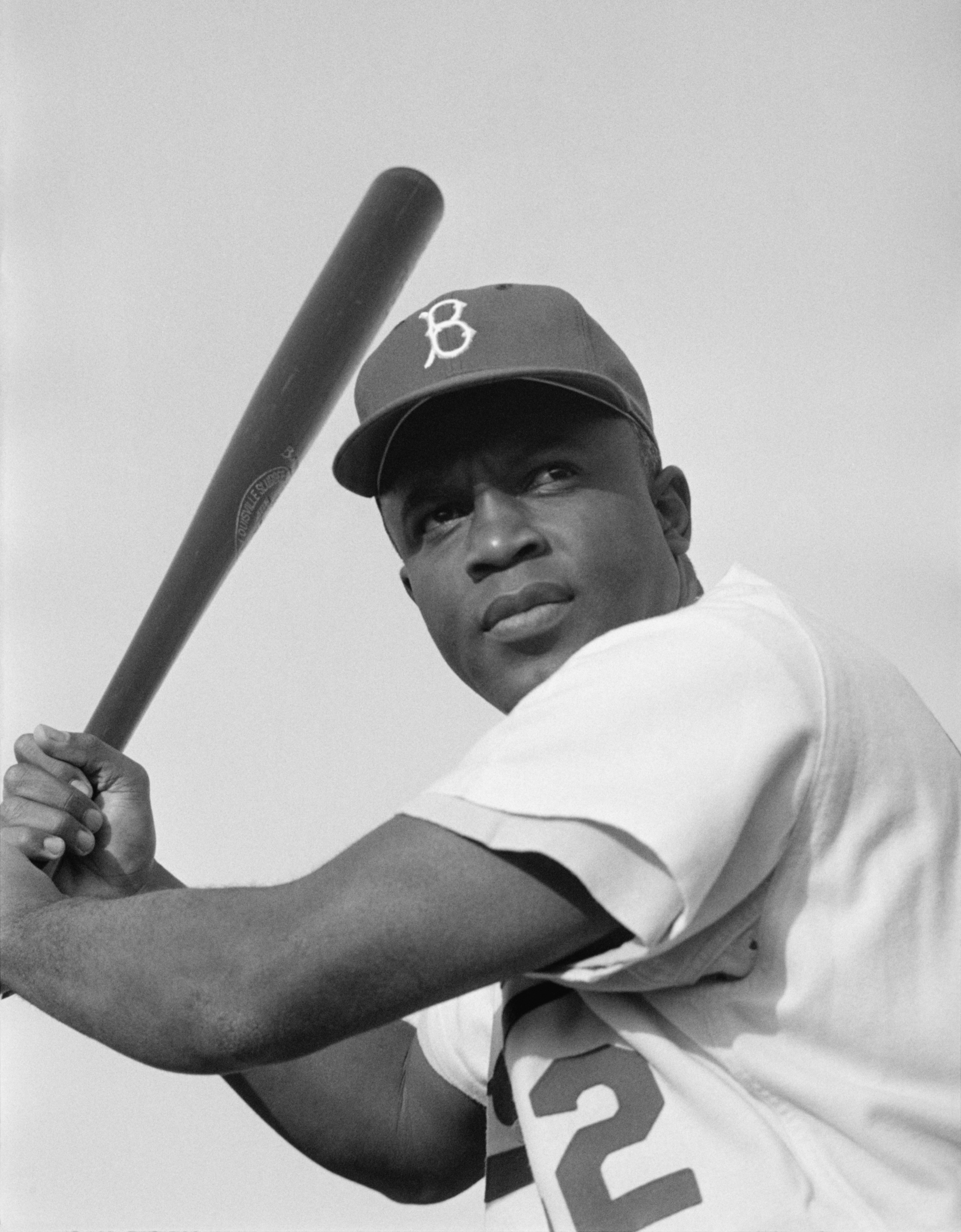 Jackie Robinson of the Brooklyn Dodgers, posed and ready to swing